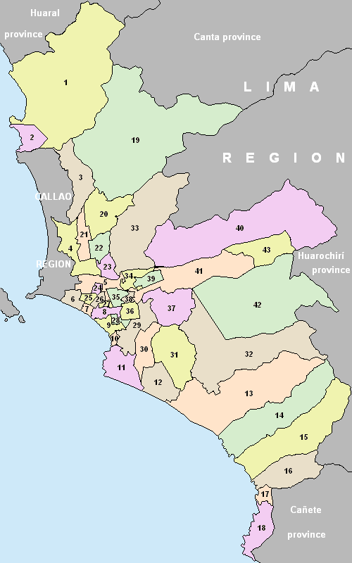 Map of metropolitan Lima, Peru Created by User:StarbucksFreak - Mar. 2005